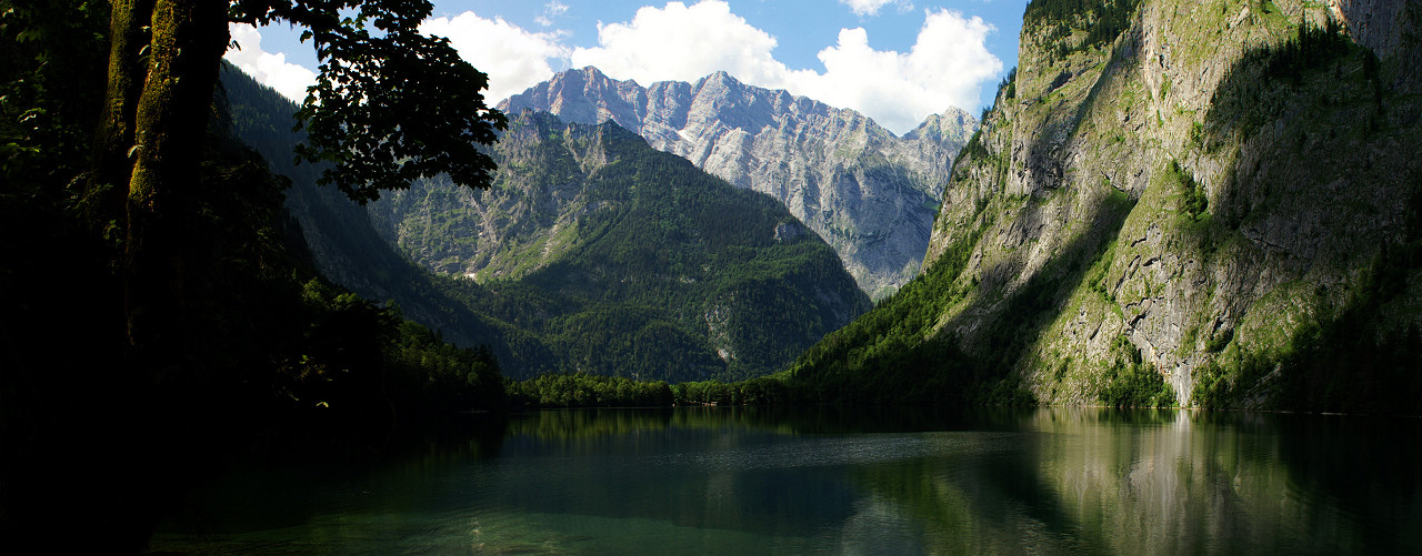 This photo was taken in the Koenigssee Obersee.